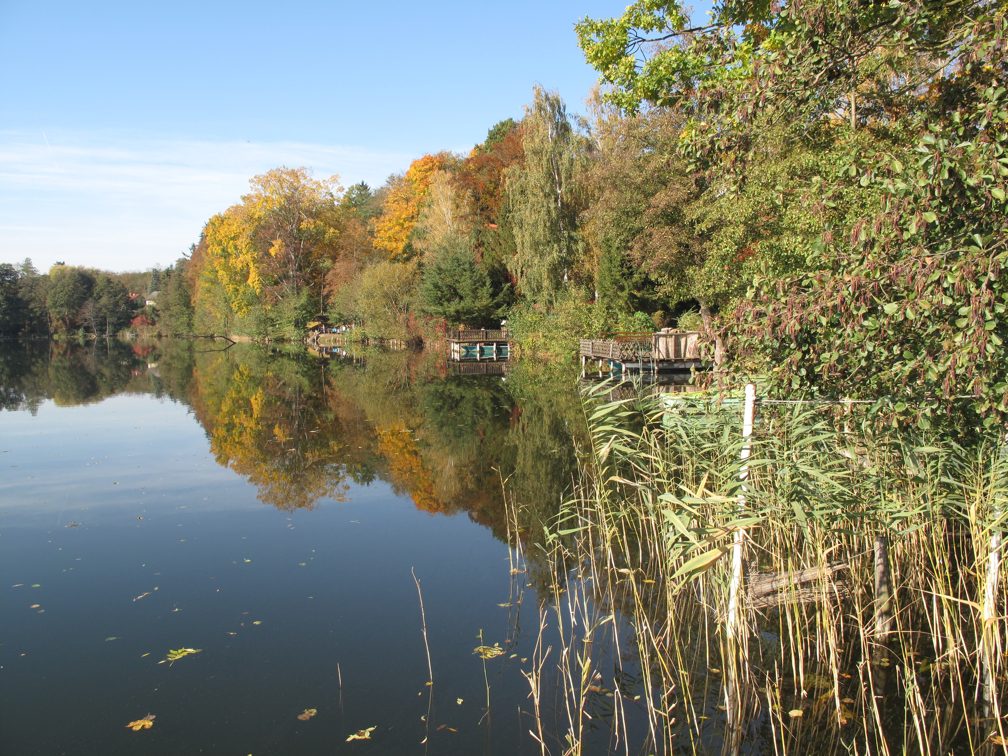 View from the eastern shore of the Buckowsee to the eastern and northern shore. The Buckowsee is a lake in Buckow, District Märkisch-Oderland, Brandenburg, Germany. The lake covers 14 hectare and has a depth of max. twelve meters. It is crossed by the river Stobber. In the west border the Kurpark Buckow (german for: Spa Park) and the Lunapark to the lake. The lake is situated in the hill country „Märkische Schweiz“ and in the Märkische Schweiz Nature Park.